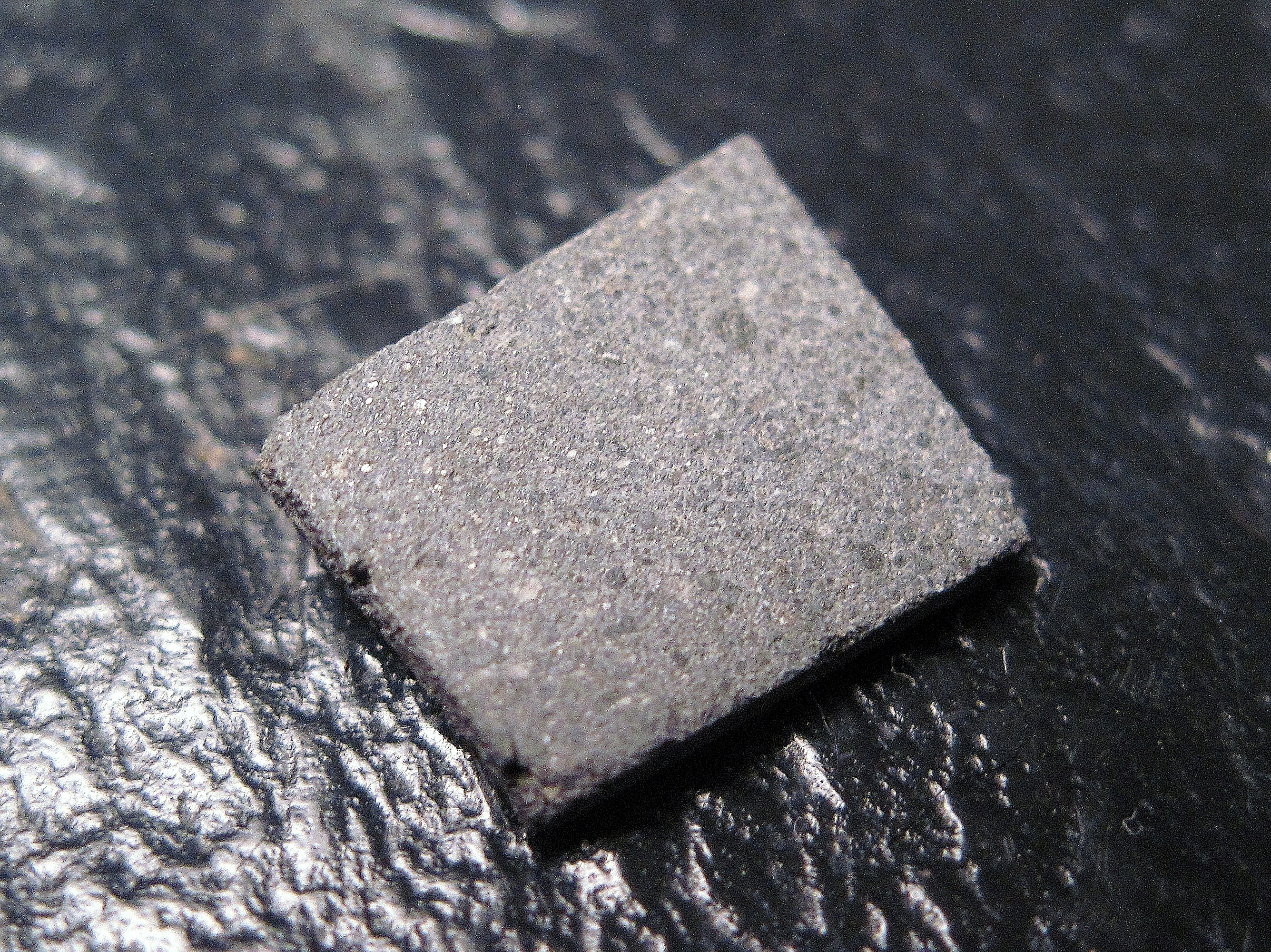 On July 14, 2006 at 10:25, a fireball lit up the sky over Moss and Rygge in southern Norway. The fireball was followed by rumbling sounds and an explosion. Afterwards a meteorite was heard hitting a piece of sheet metal. The meteorite recovered from this event was a relatively rare CO3.5/3.6 carbonaceous chondrite and it was named Moss. Despite extensive searches, only 5 stones were found with a total combined weight of 3.76 kgs. This beautiful partial slice has crust along one edge. 0.588 g.